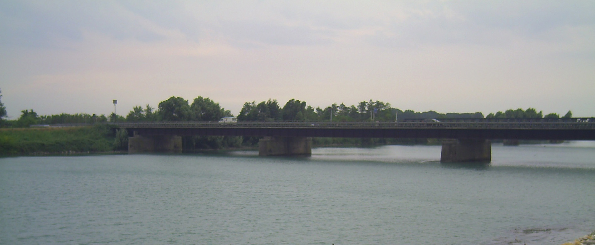 Bridge over Adige river, SS (State Road) 309 "Romea", between Rosolina and Chioggia